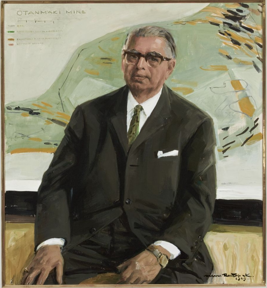 Portrait painting of the Finnish professor of mining technology Kauko Järvinen (1903–1980).